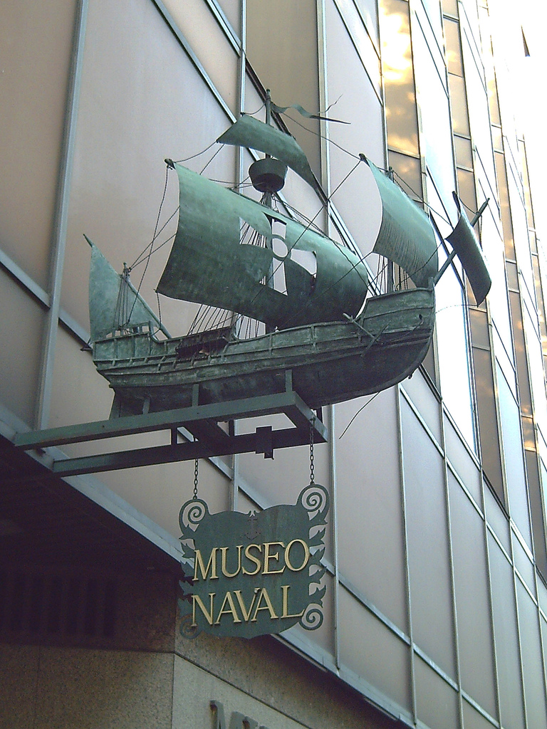 Detail of the entrance to the Naval Museum of Madrid (Spain). 5 Paseo del Prado (boulevard), at the ground floor of the Spanish Navy headquarters. The Museum was founded by Queen Isabella II on November 19, 1843. It is at the current venue since October 1932.